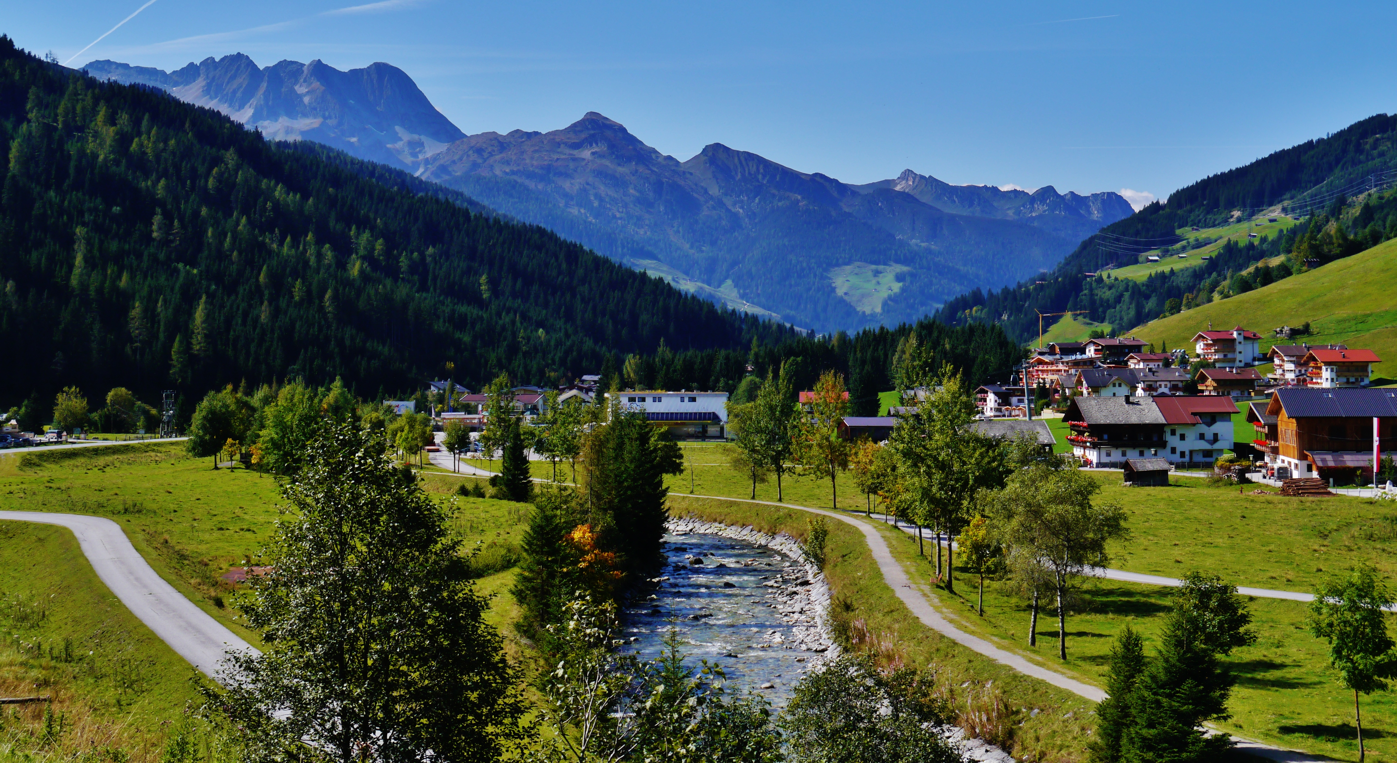 Gerlos Pass, Tyrol, Austria